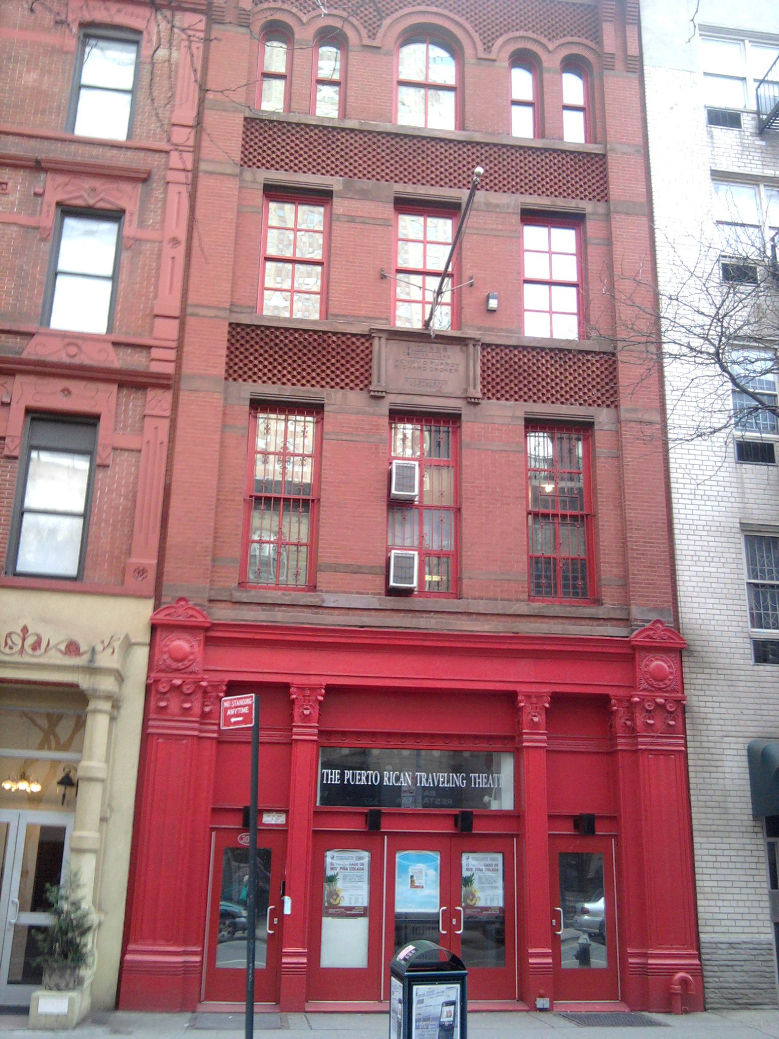 Looking southwest across 47th Street at theater, former Engine company 54. [1]